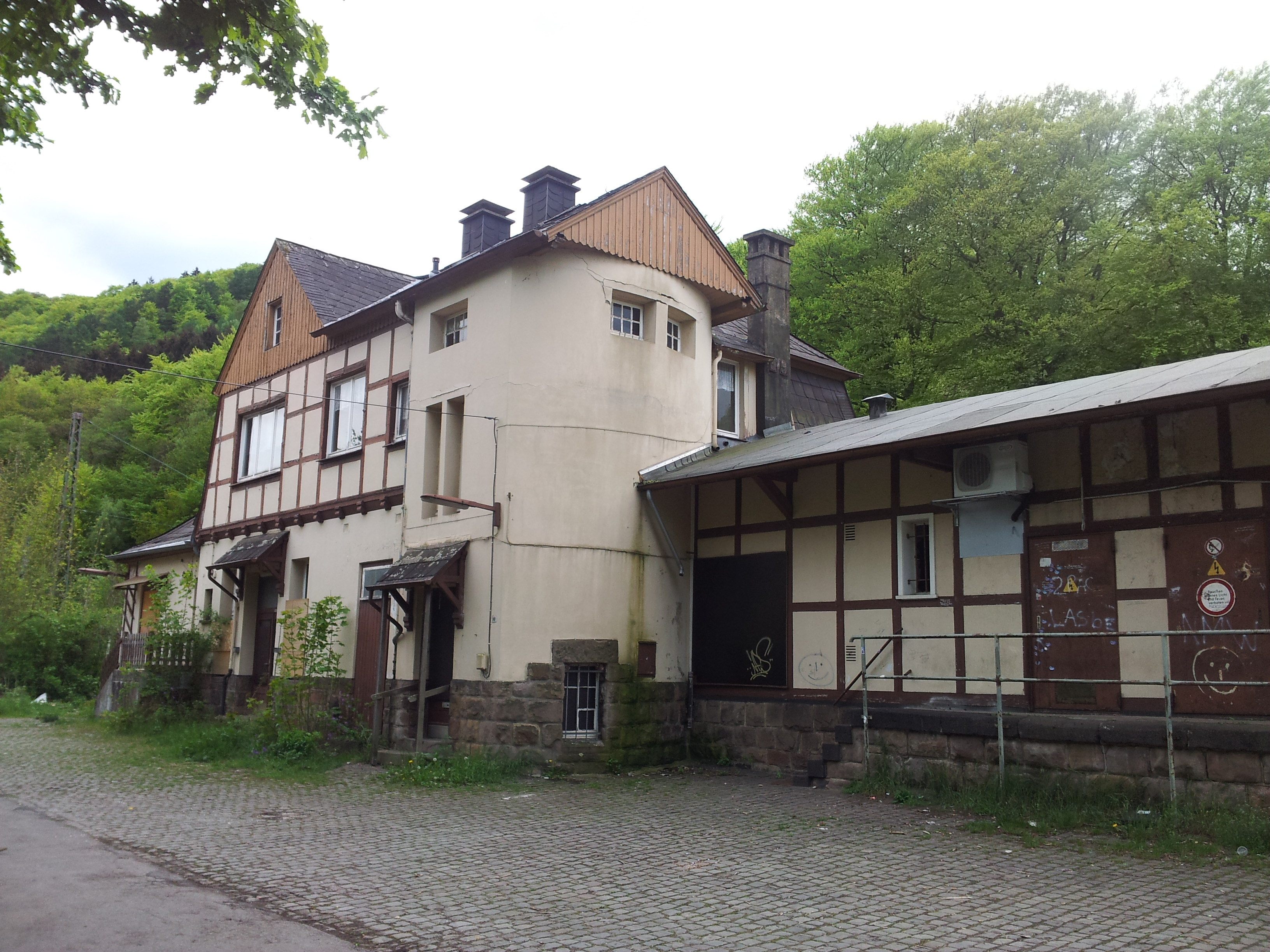 Closed train station Nachrodt